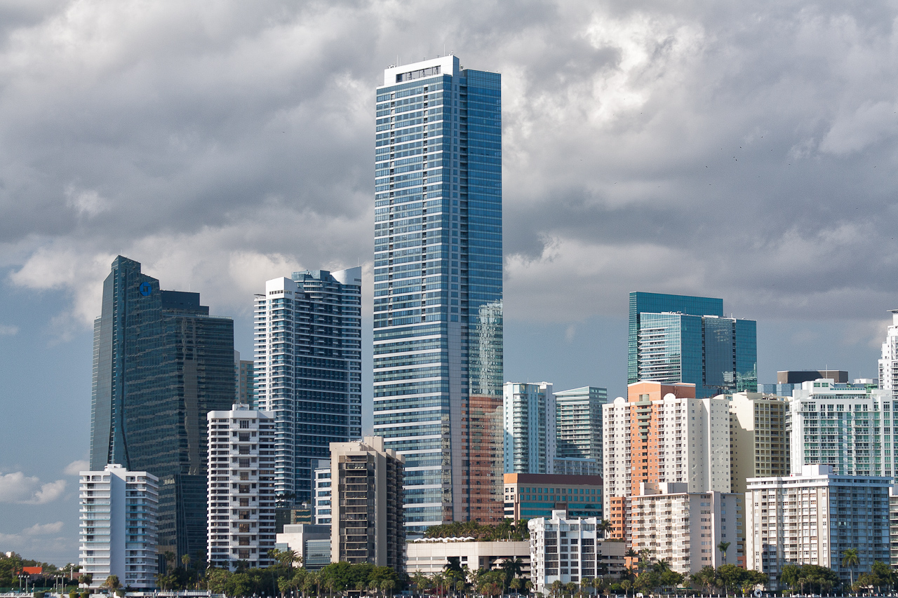 Miami December Afternoon from Namaste Sailing Charters in Coconut Grove